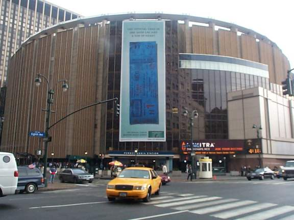 Madison Square Garden